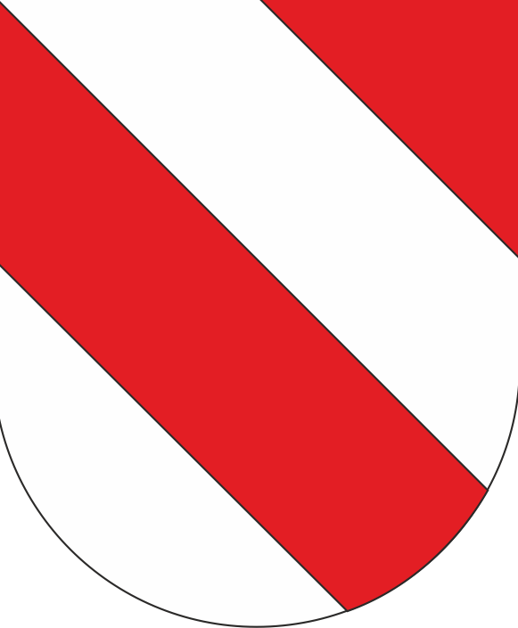 coat of arms